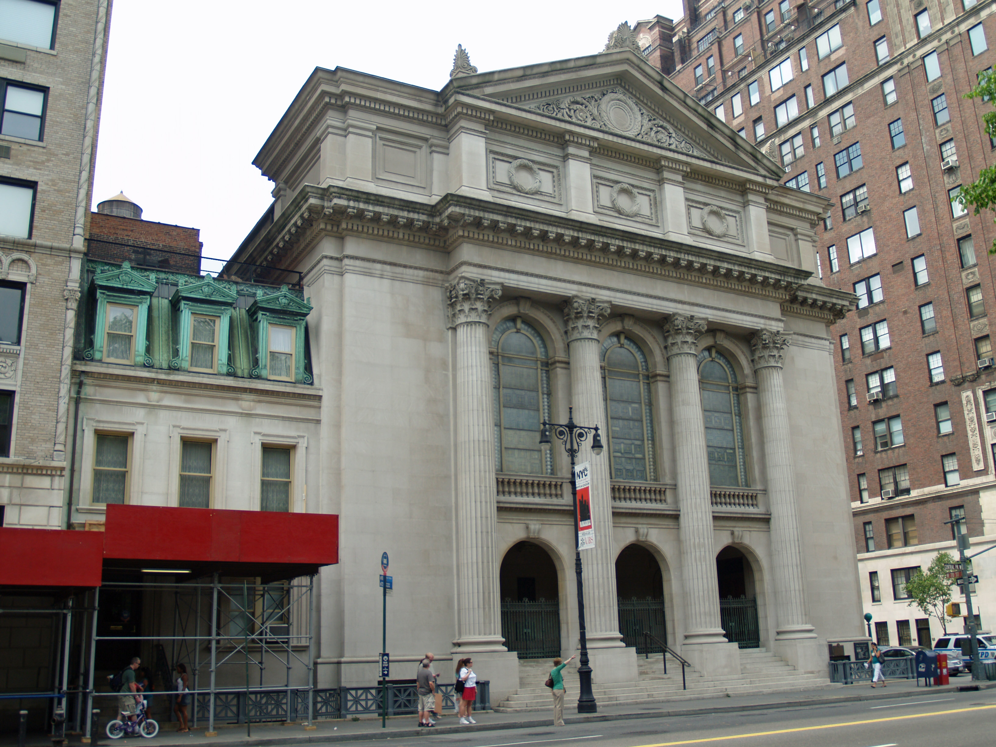 8 West 70th Street (Congregation Shearith Israel)